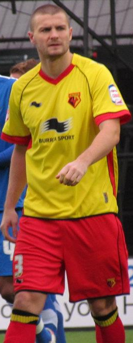 Dickinson in Watford colours